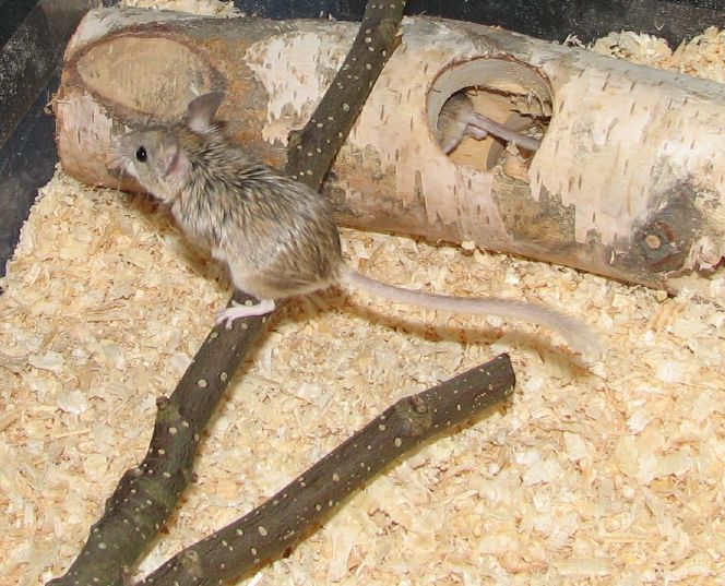 Mouse like hamster Calomyscus photo by Kenneth Worm